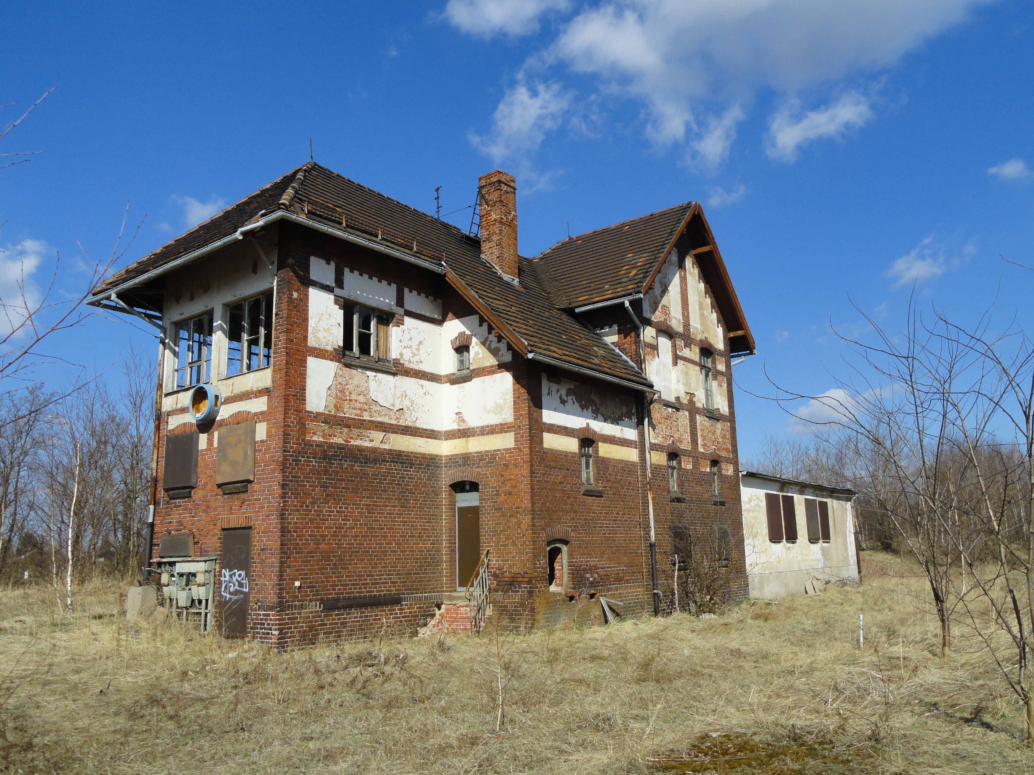 old interlocking block "Snt" (Schlauroth northern tower) in Schlauroth, Görlitz, Saxony